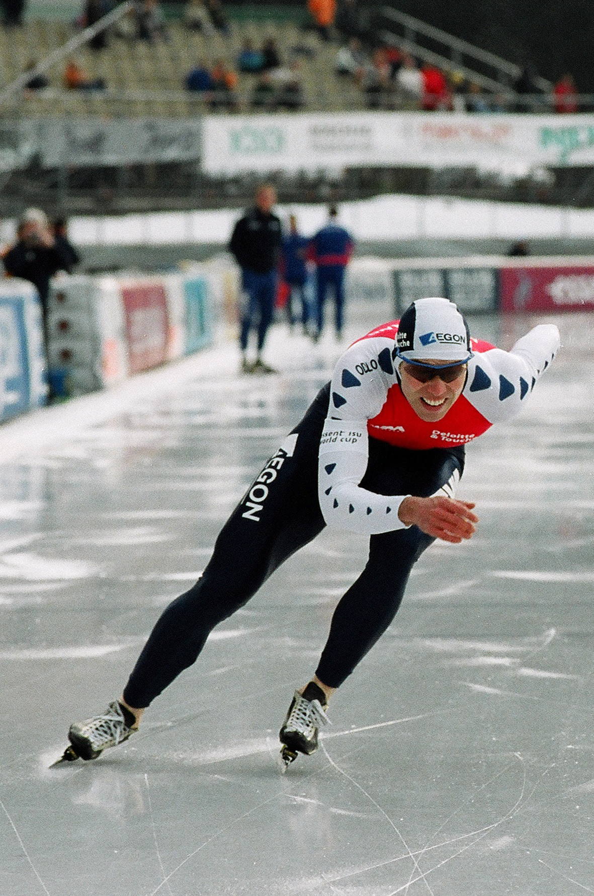 Gerard van Velde is a former speedskater from The Netherlands